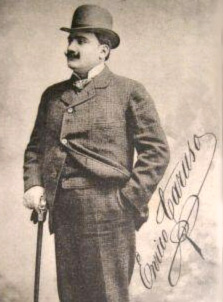 Giacomo Brogi (1822-1881), Portrait of Enrico Caruso, sold as a postcard.